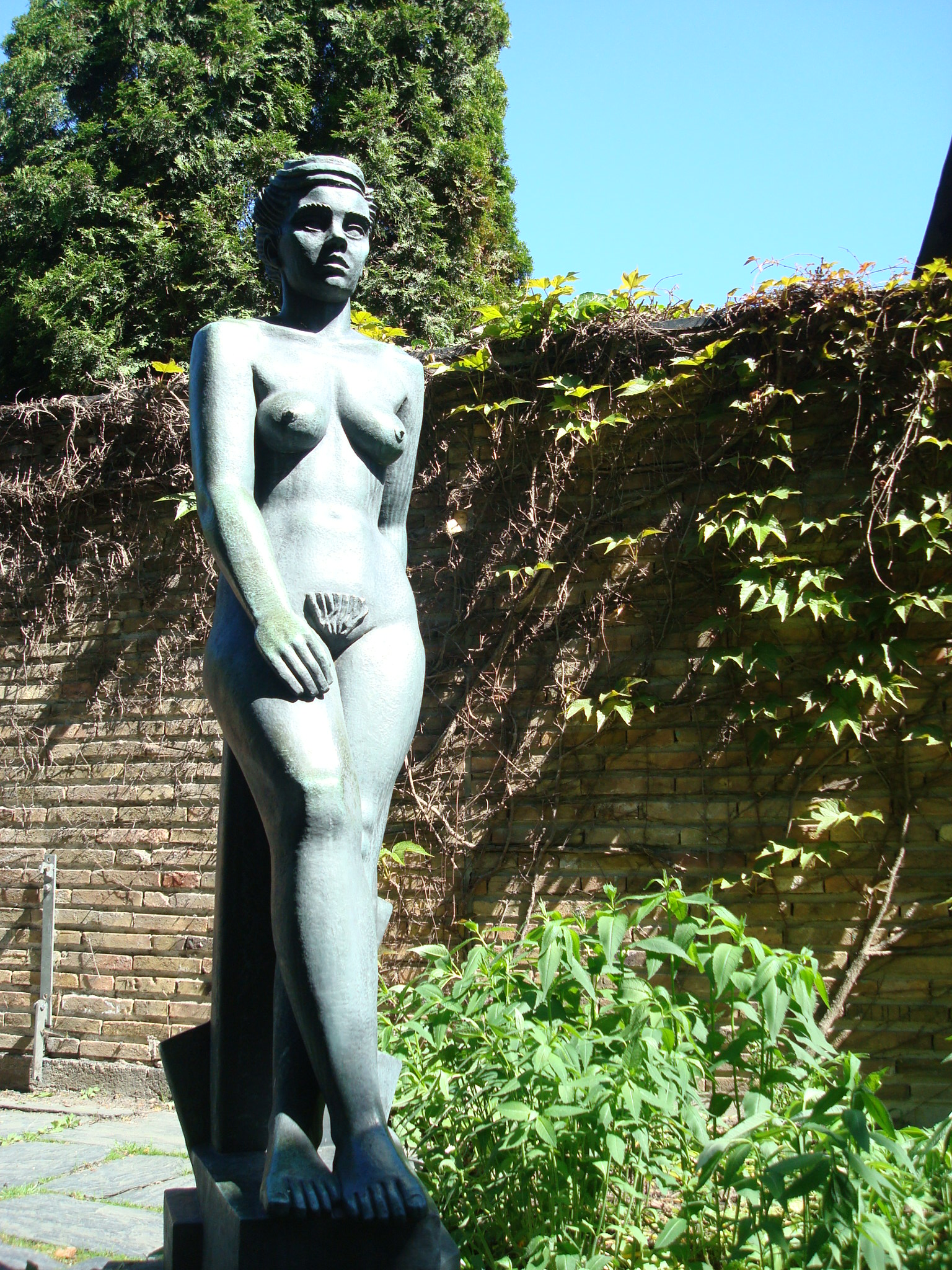 Sculpture in Maraboupark